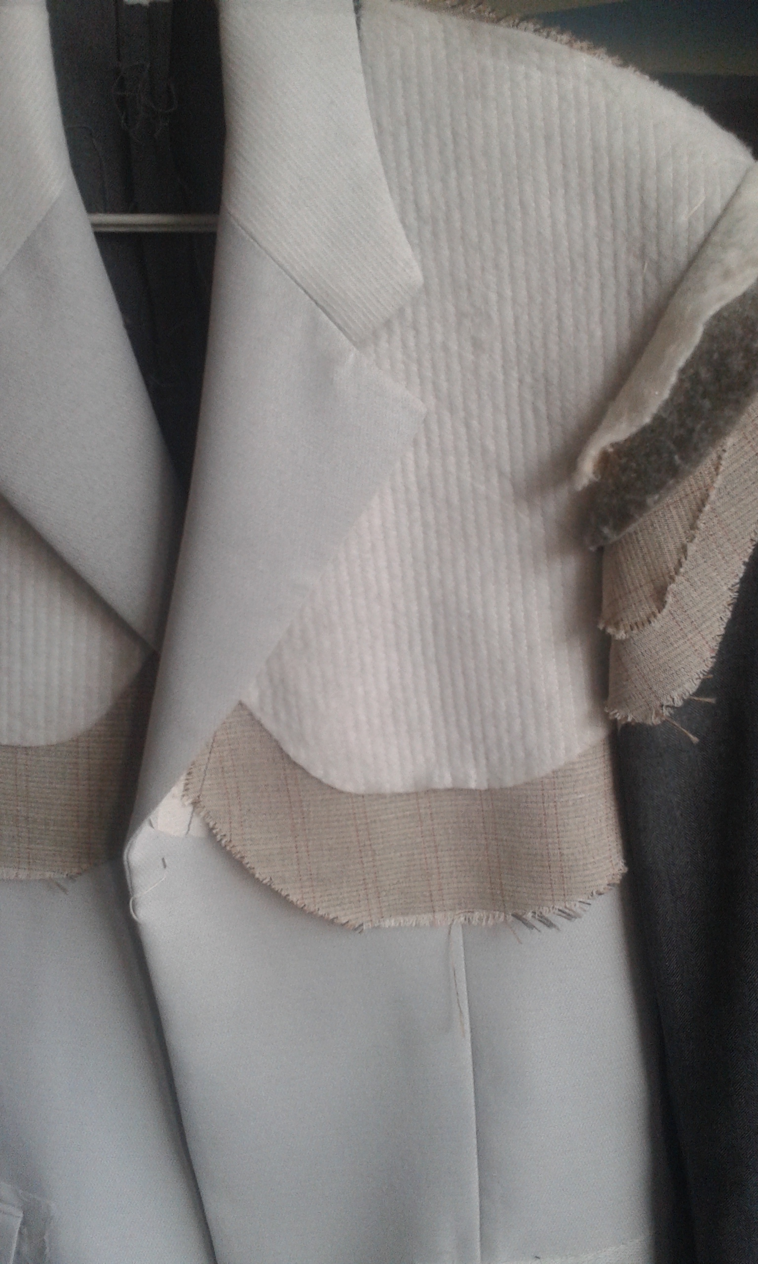 Maliwatt in use